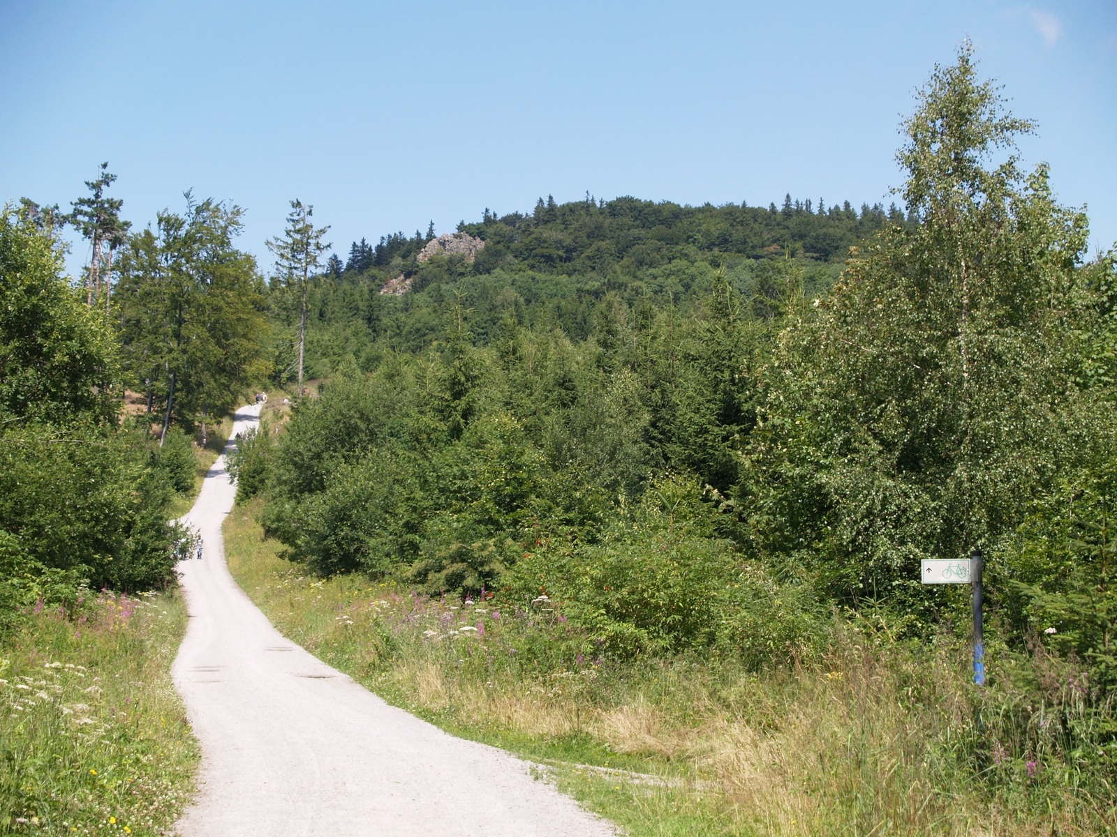 Bubenbader Stein, Rhön, Germany